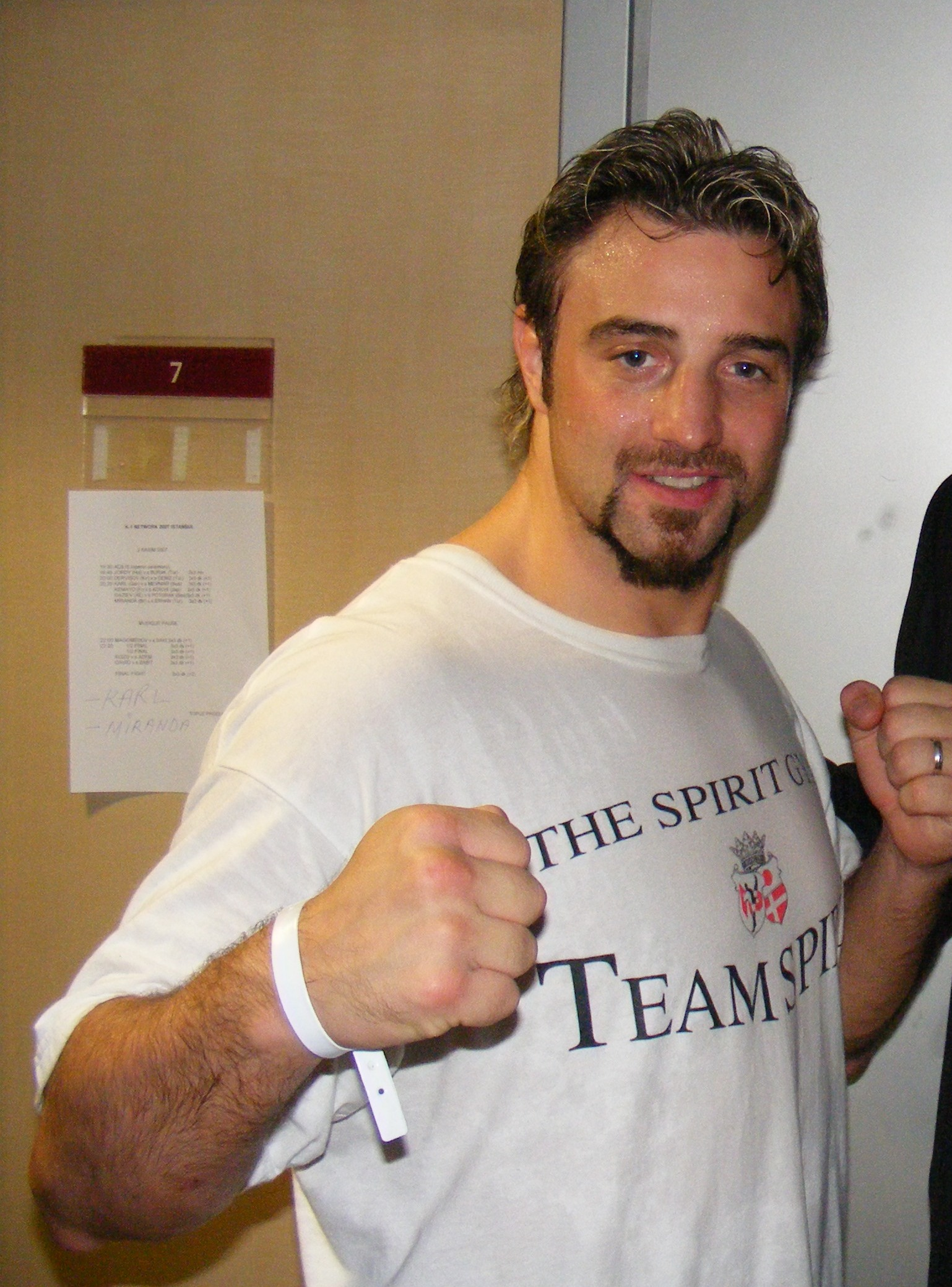 Pic was taken by myself at K-1 Aisa GP in HK 207 during my trip to Hong Kong. There are counterparts upşoaded for different articles as well.